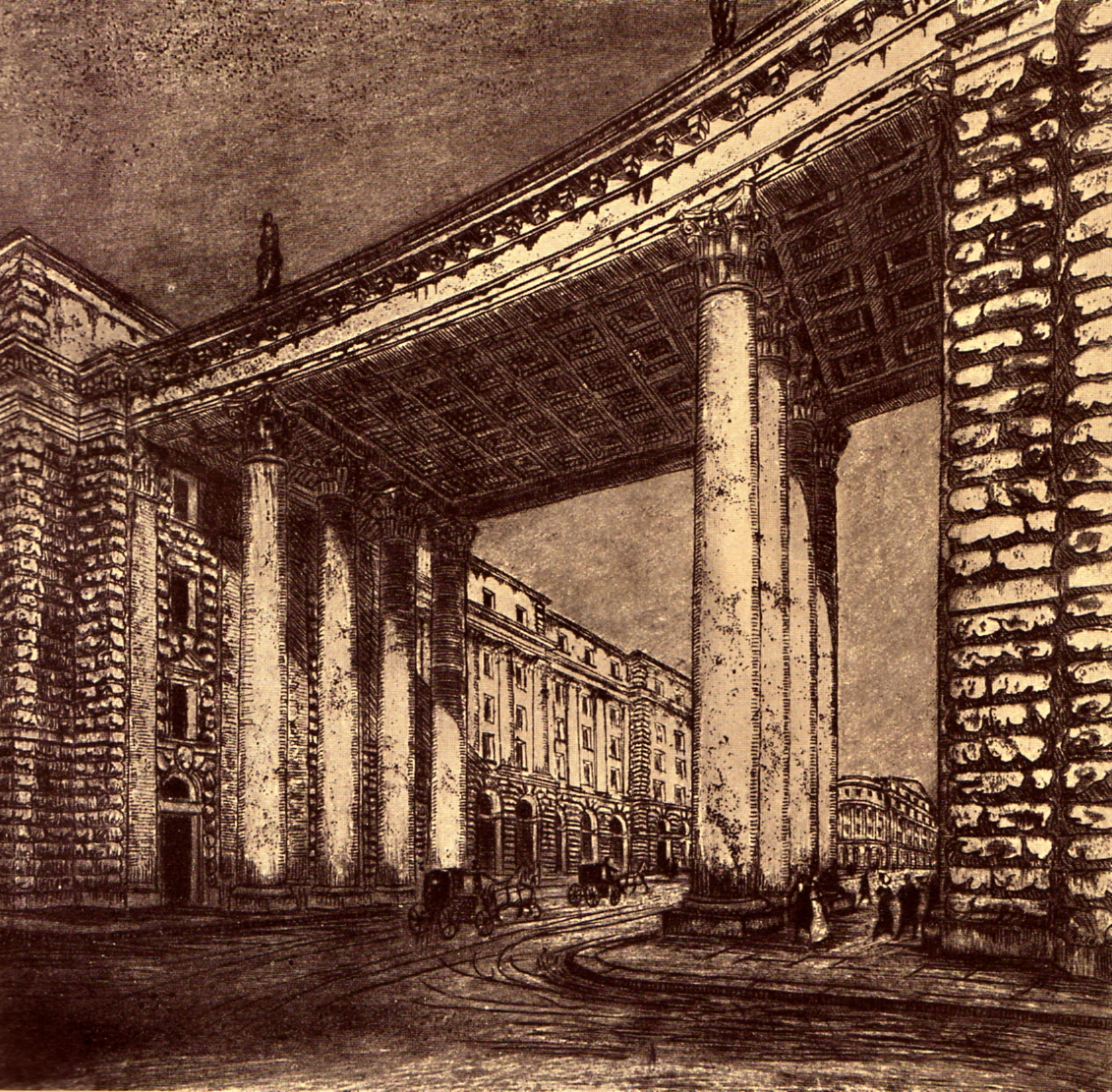 Ivan Alexandrovich Fomin (1872 - 1936), etching of project in St Petersburg